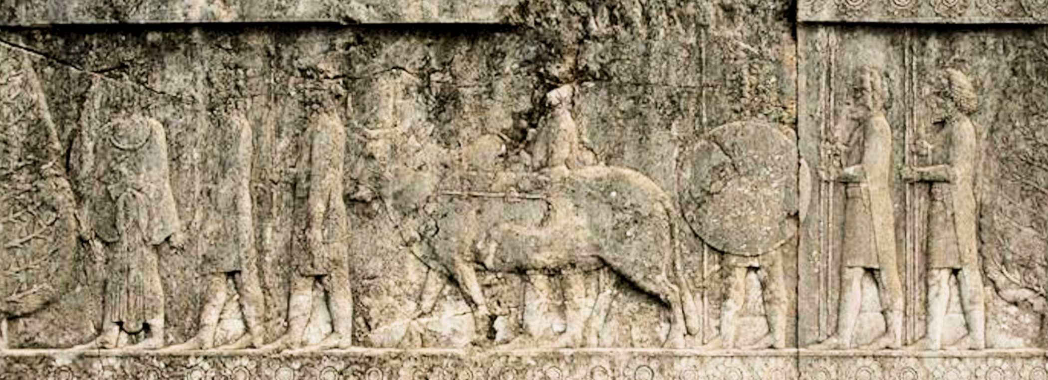 Apadana Palace Gandharans